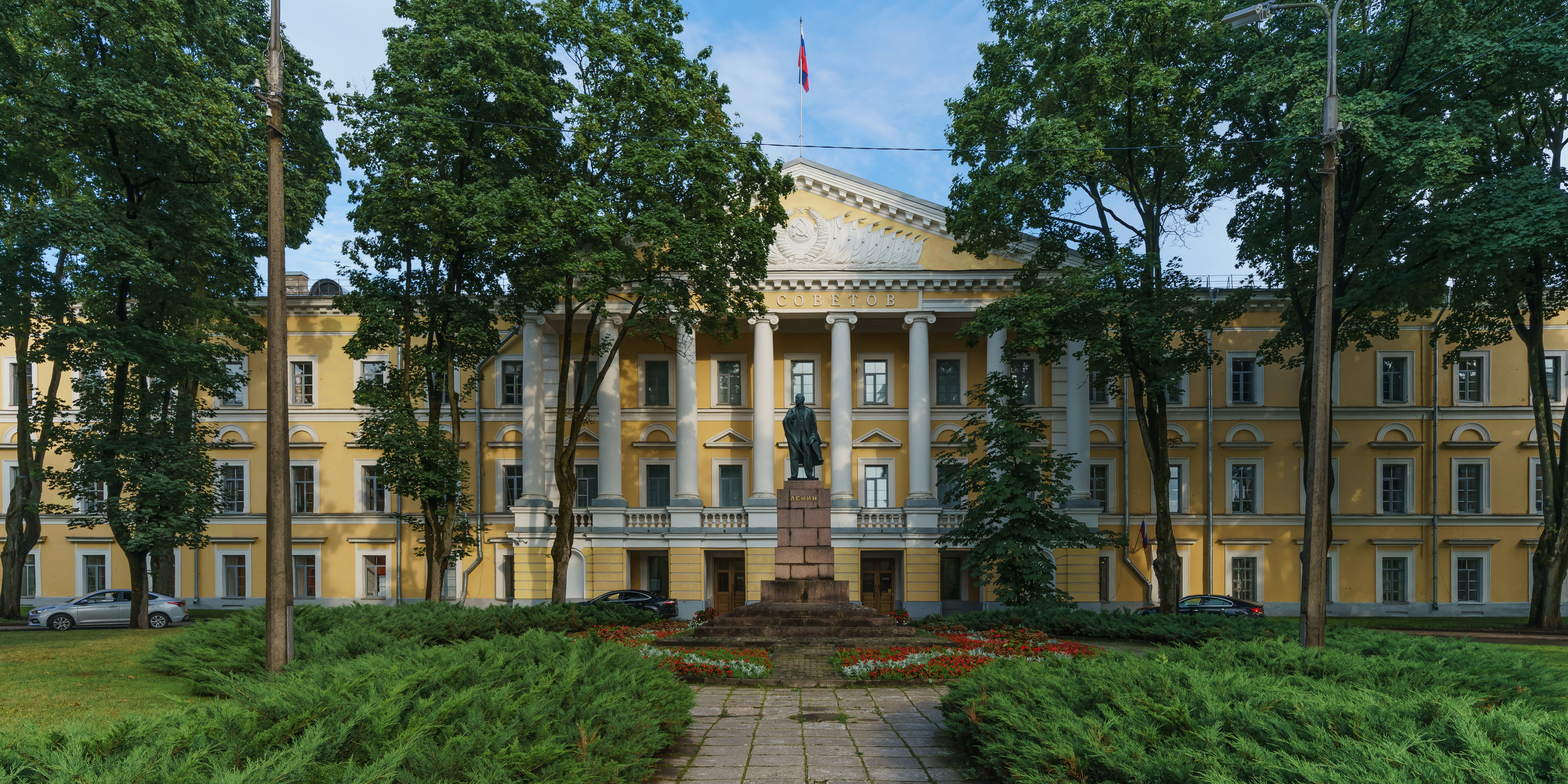 House of Soviets (former Cadet Corps) in Pskov, Russia